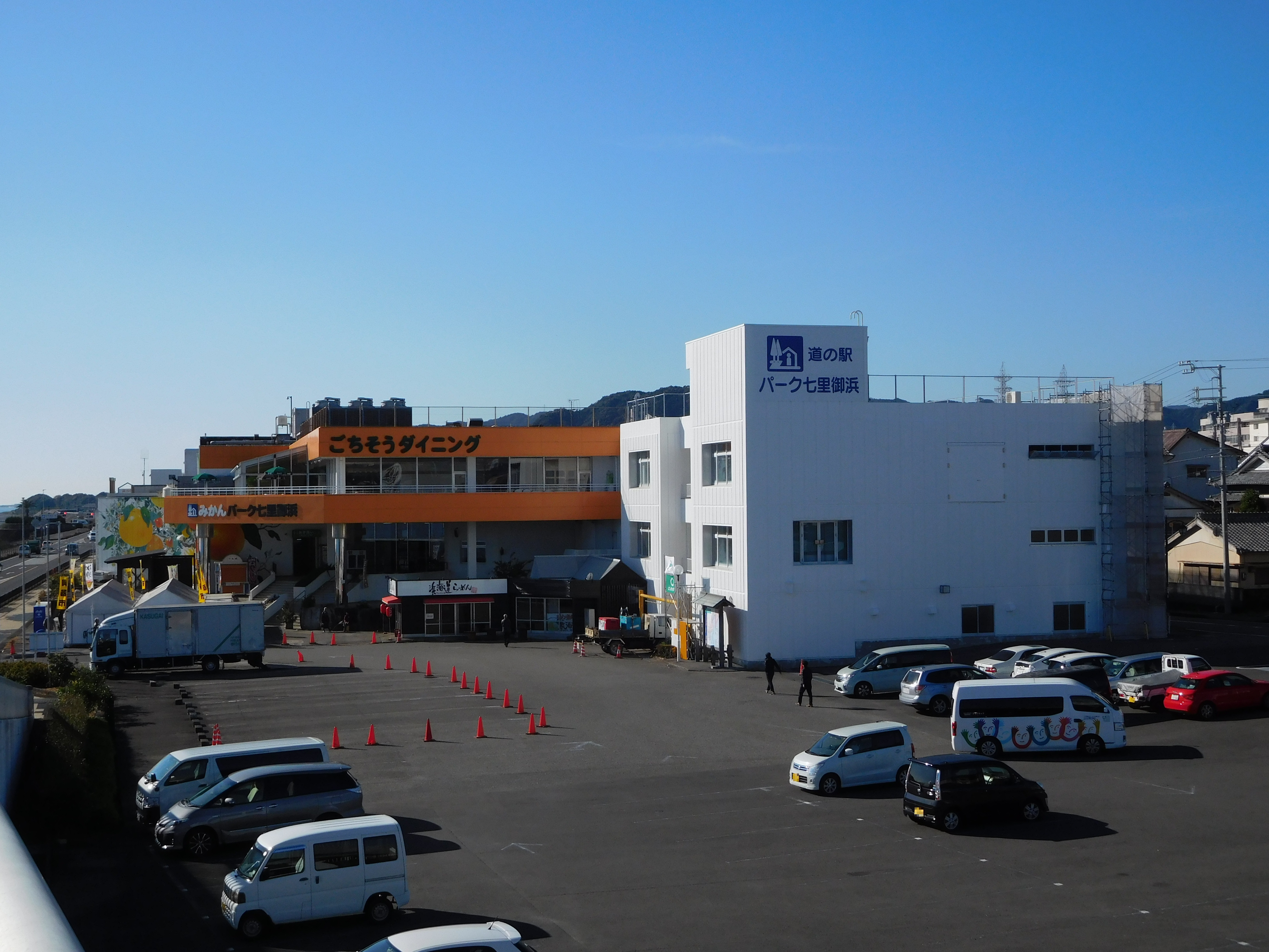 This is the Road station Park Shichirimihama in Mihama, Mie, Japan.